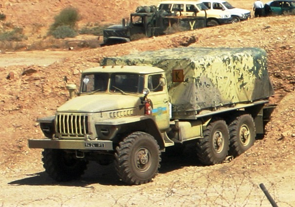 A Ukraine Army Ural-4320 transport truck in Iraq in 2003.